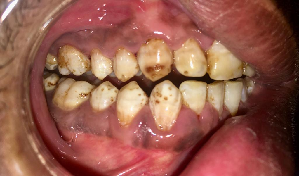 Severe form of dental fluorosis in a 30 y.o.p